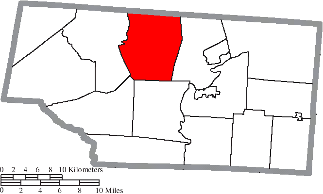 Map of the municipal and township boundaries of Pike County, Ohio, United States, as of the 2000 census, with the location of Pebble Township highlighted. Township borders are shown only in unincorporated areas in order to differentiate incorporated and unincorporated areas more clearly.